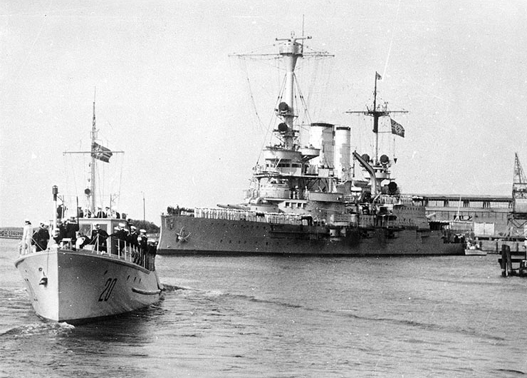 The German battleship Schleswig-Holstein in Danzig (Gdańsk) harbour in September 1939, after the outbreak of World War II. She had fired the conflict's first shot earlier that month. The German motor minesweeper R-20 is in the left foreground, backing out away from shore.